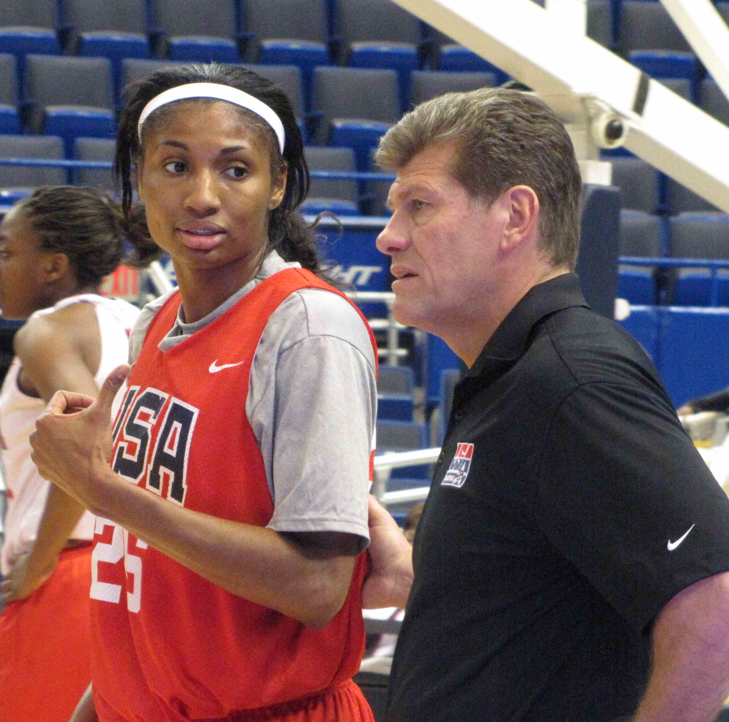 USA Training session for players on the USA National team and USA Select team, beginning training in preparation for the FIBA World Championship. Training took place 14-18 April, culminating in a red-white scrimmage on 18 April at the Veterans Memorial Coliseum in the XL Center, Hartford Connecticut